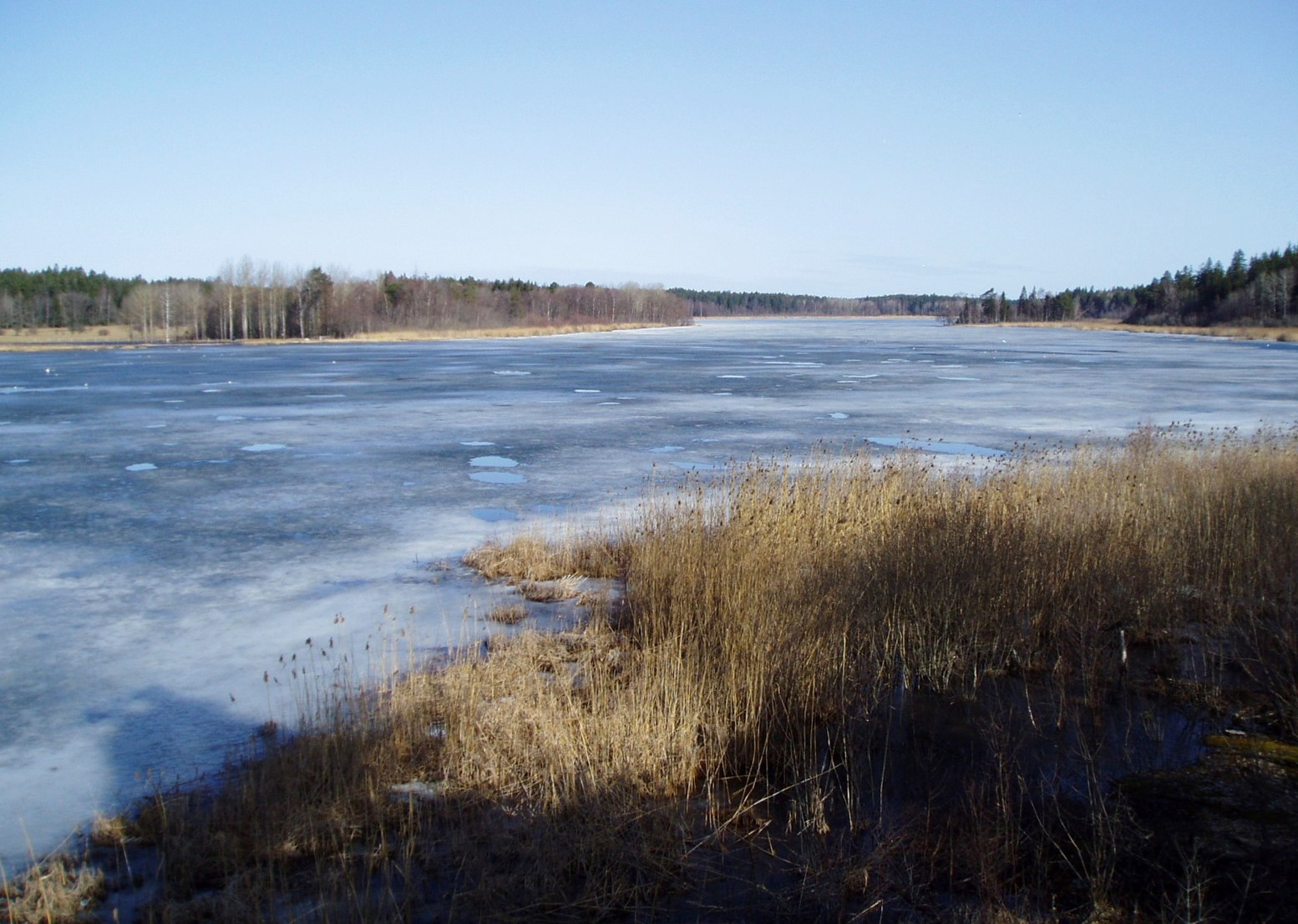 Säbysjön, lake in Järfälla municipality, Sweden